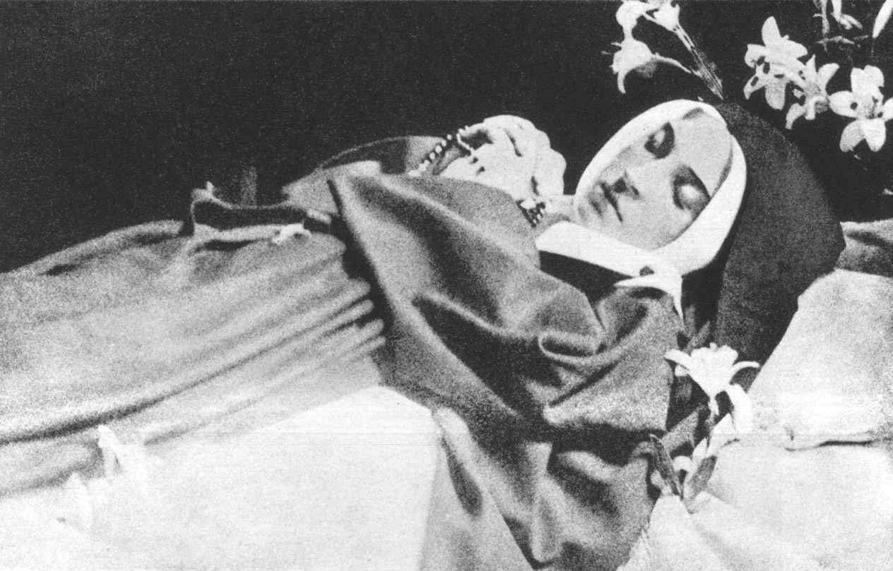 Incorrupt body of Bernadette Soubirous, taken between after the last exhumation (April 18, 1925) and before being stored in the current urn (July 18, 1925). The saint died on April 16, 1879, 46 years before the photo.